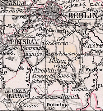 Detail from a map of Brandenburg.